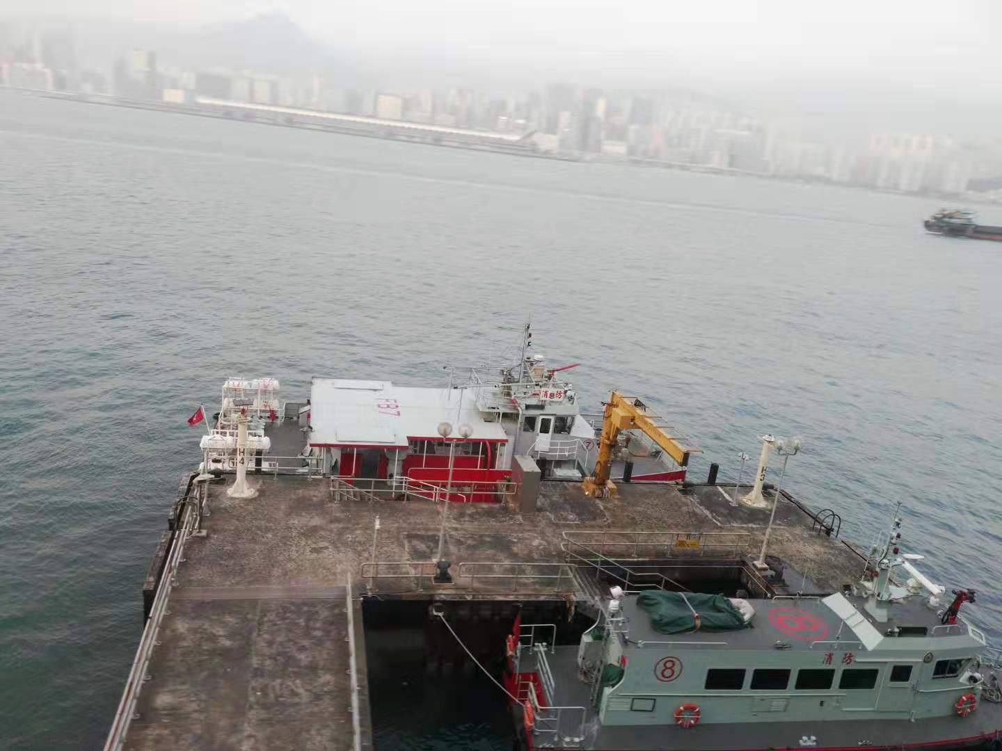 Hong Kong Fire Services boat no. 7 docked at North Point Fire Services Pier 中文（香港）: 香港7號消防船停泊在北角消防處碼頭